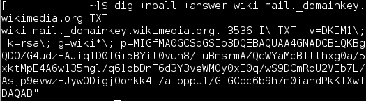 This is the DKIM signature used by mailers, screenshotted the dig command $ dig +noall +answer wiki-mail._domainkey.wikimedia.org TXT and removed my personal details.